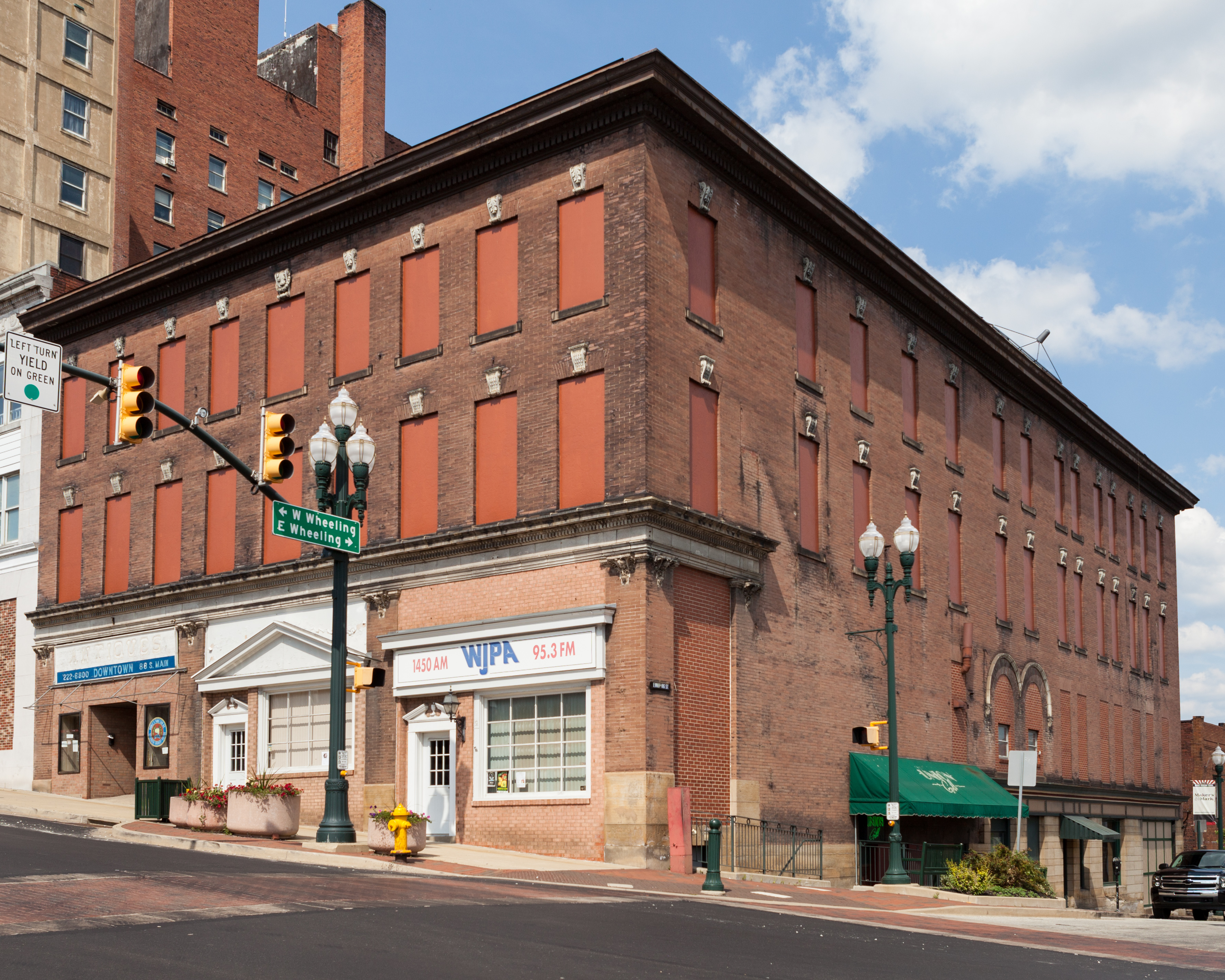 WJPA studio at 98 South Main Steet in Washington, Pennsylvania and the The Union Grill.